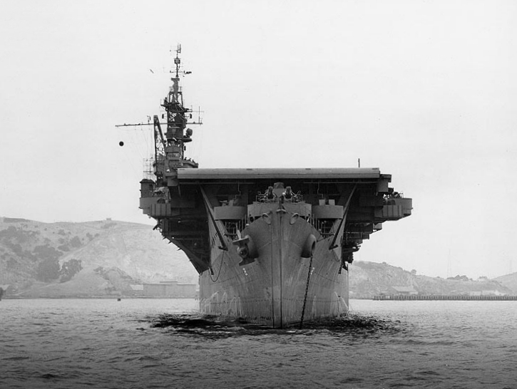 The U.S. Navy light aircraft carrier USS Independence (CV-22) off the Mare Island Navy Yard, California (USA), on 13 July 1943. Her hull number was changed to CVL-22 two days later.